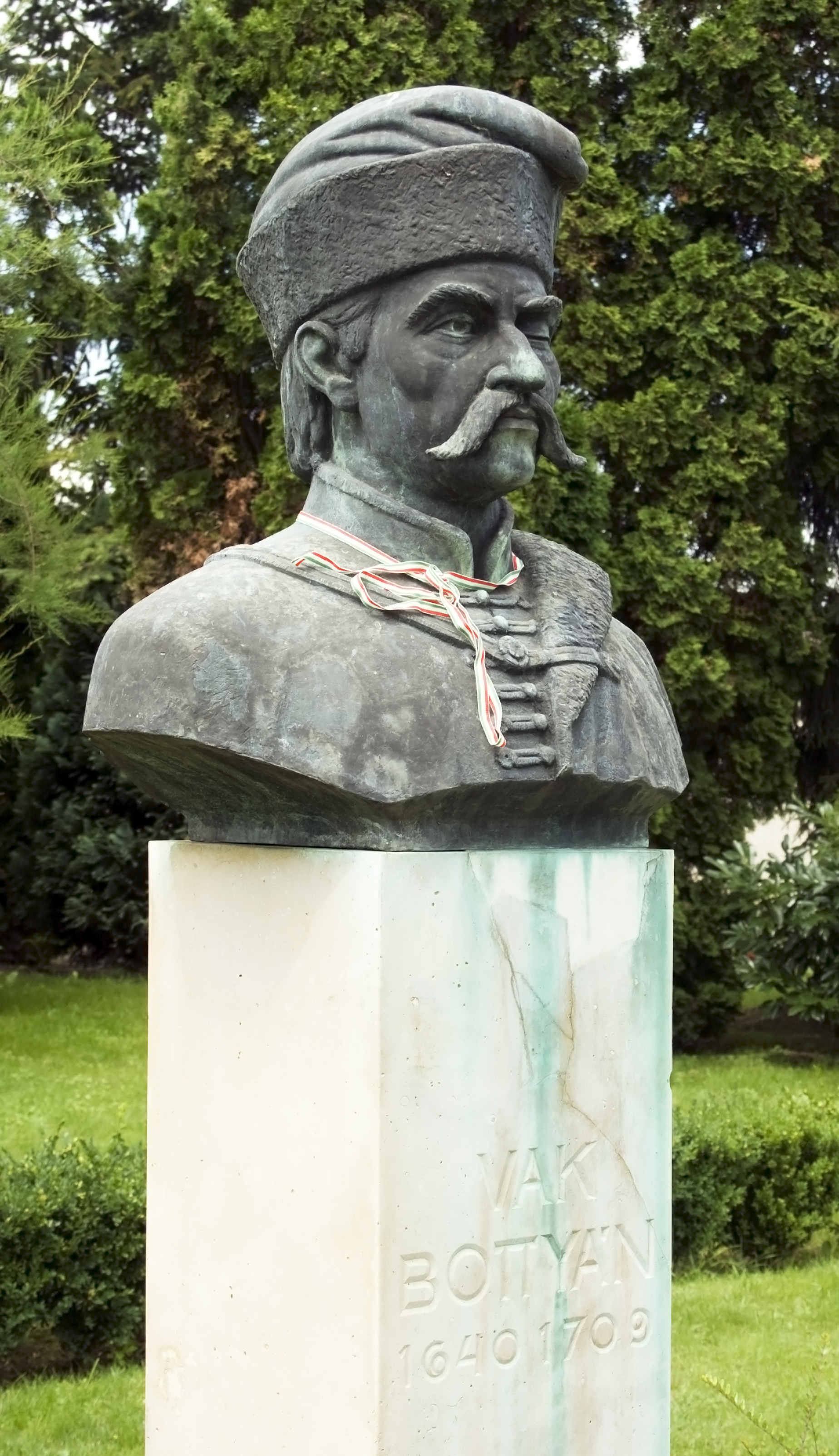 Bust of János Bottyán (Vak Bottyán) in the park of the Vaja Castle, Hungary – by László Garami, 1981